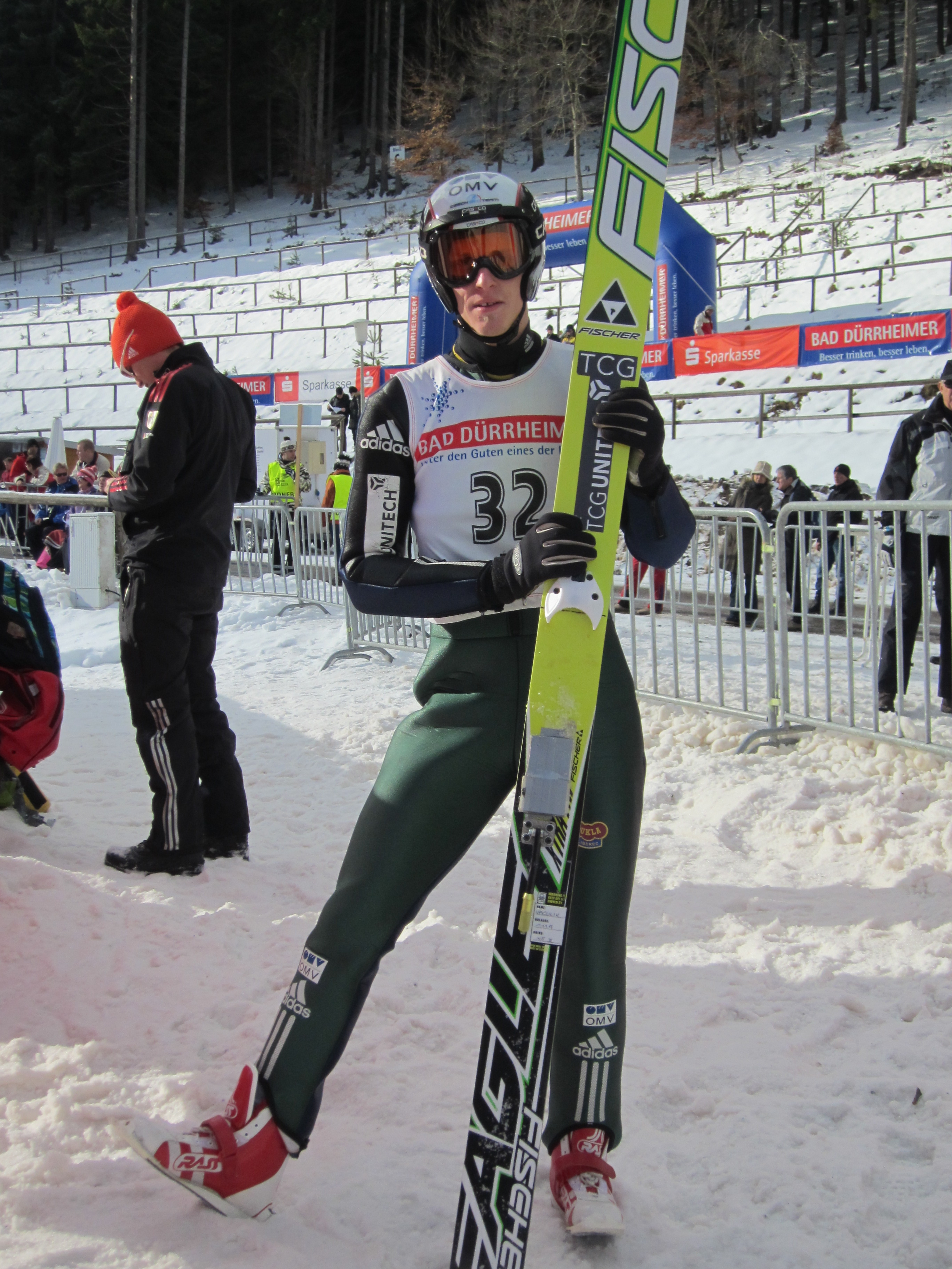 Ondřej Vaculík: the photo was taken during Saturday's competition of 2012's Continental Cup event at the Hochfirstschanze in Titisee-Neustadt